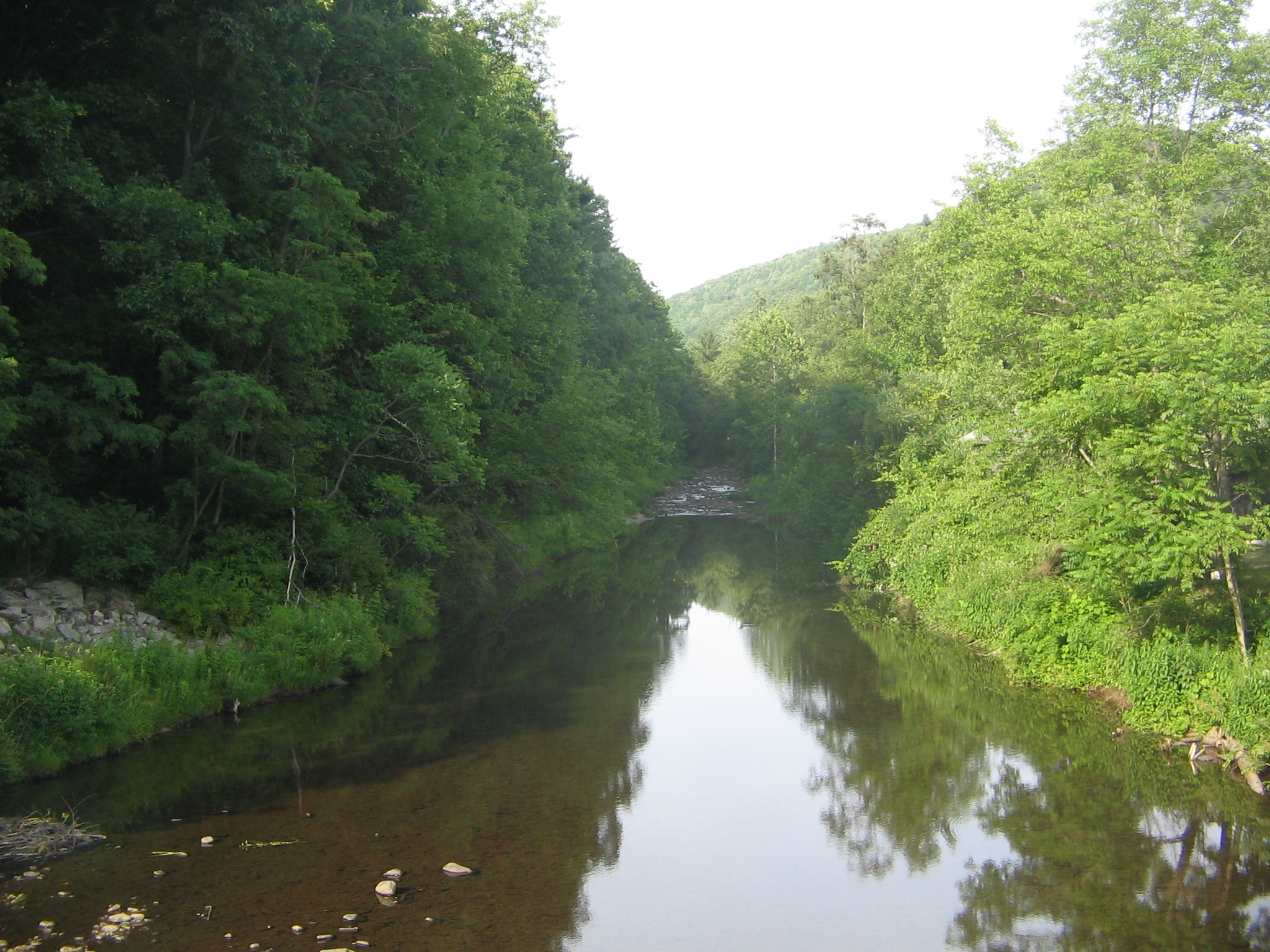 Babb Creek looking east from the PA Route 287 Bridge in the village of Morris in Morris Township, Tioga County, Pennsylvania, United States